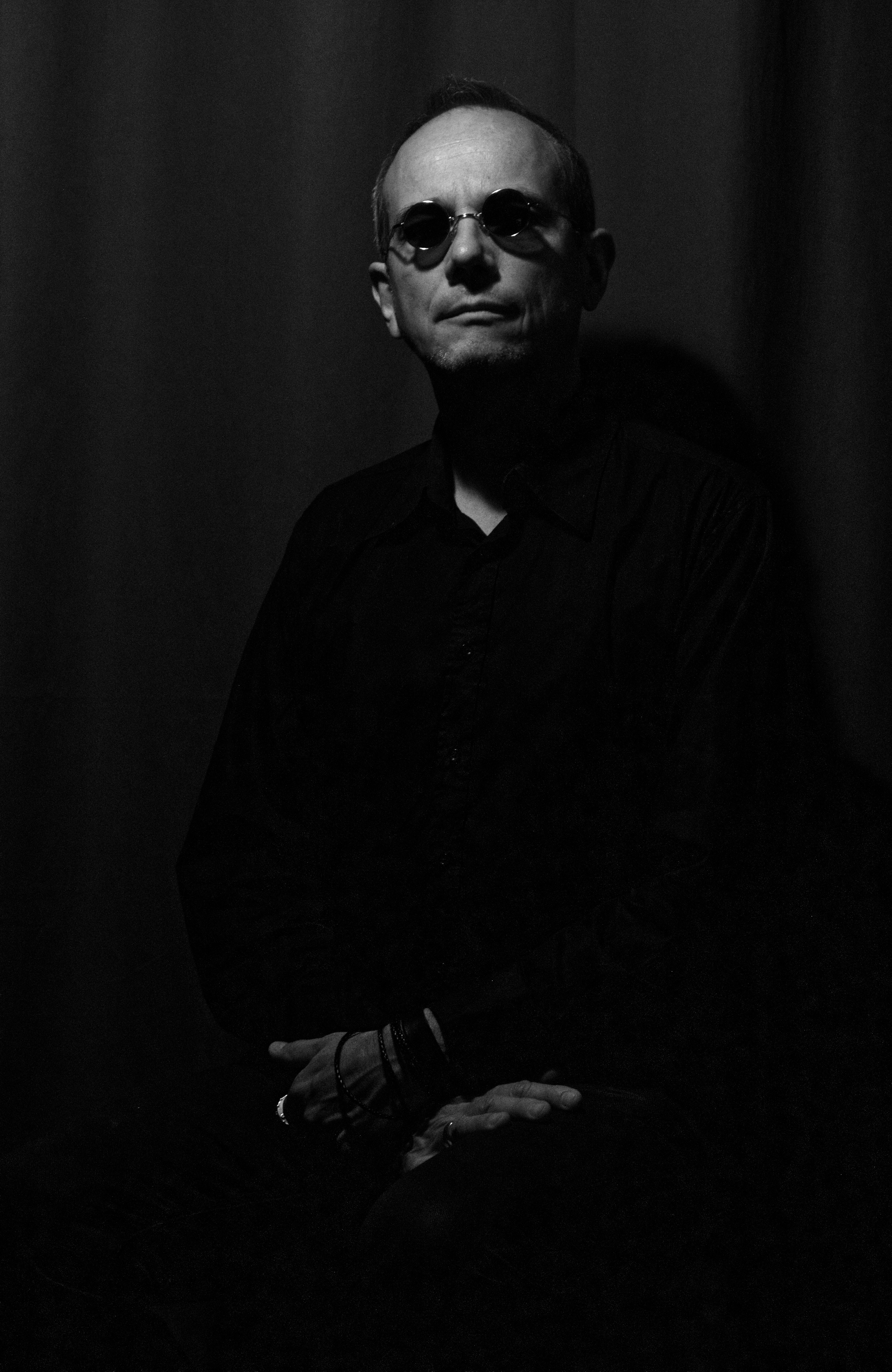 Photographic portrait of the painter and plastic designer DEC